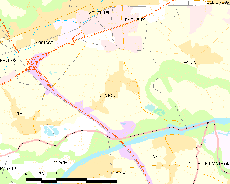 Map of French commune: Niévroz Map commune FR insee code 01276.png